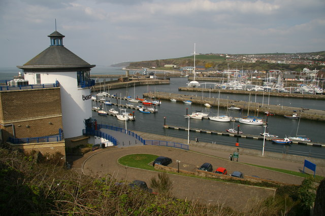 The Beacon The Beacon Museum has a commanding view of Whitehaven harbour and surrounding area. The turbines at Lowca wind farm are just visible in the distance beyond the old Piermaster's House on Old Quay.